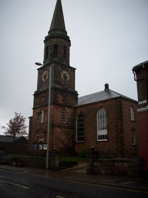 The Old Parish Church, Annan, Dumfriesshire